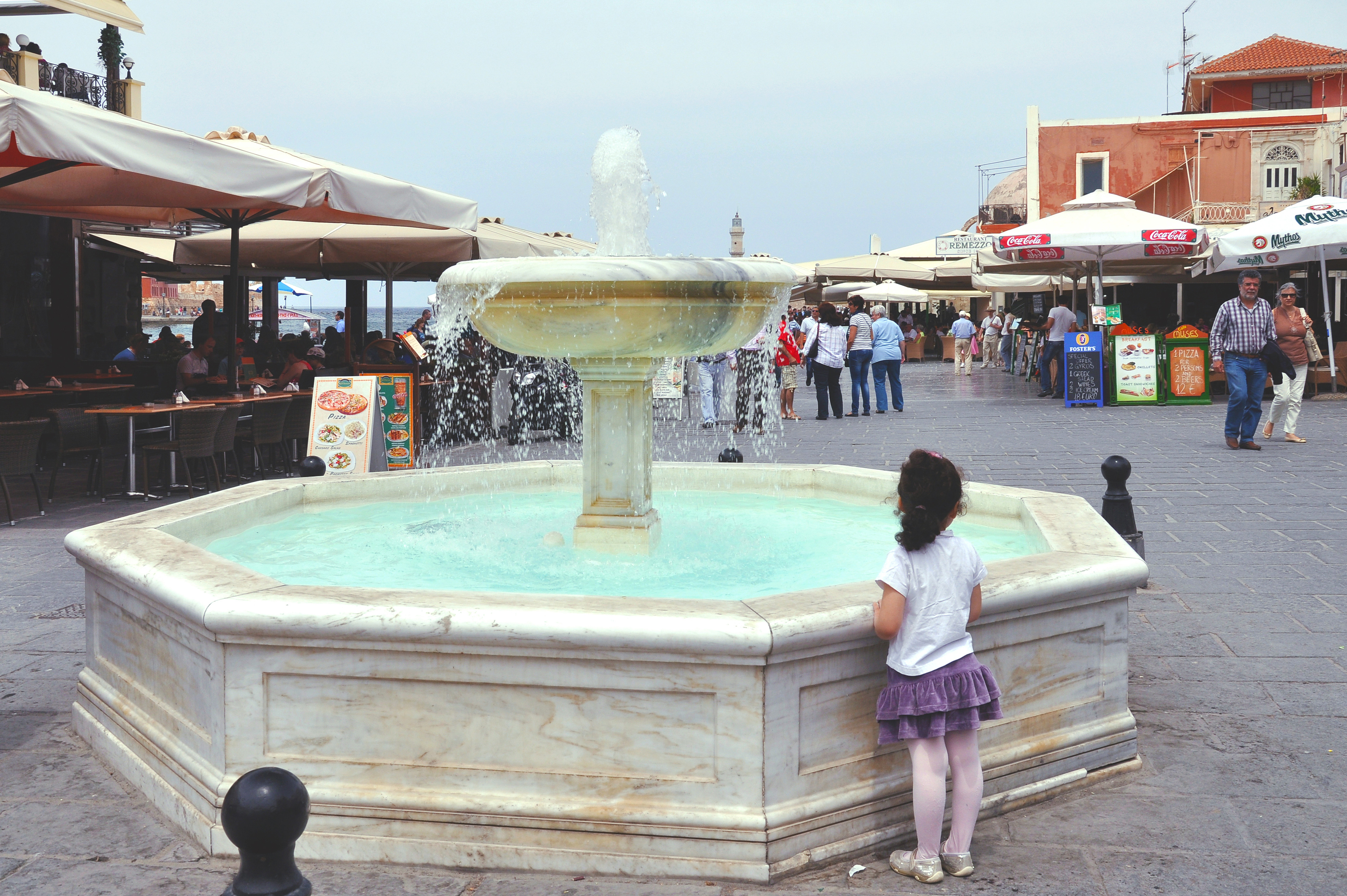 Fountain at the Square Eleftheriou Venizelou in Chania in Crete, Greece.